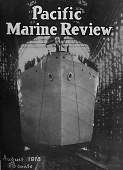 Launching of West Ekonk (American Freighter, 1918) The August 1918 cover of Pacific Marine Review featured a photograph of the launching of West Ekonk at the Skinner & Eddy Corporation shipyard on 22 June 1918. Delivered by Skinner & Eddy on 13 July 1918, she was placed in commission the same day as USS West Ekonk (ID # 3313). The ship was returned to the U.S. Shipping Board on 9 April 1919. She later became British merchant ship SS Empire Wildebeeste and was sunk during World War II.